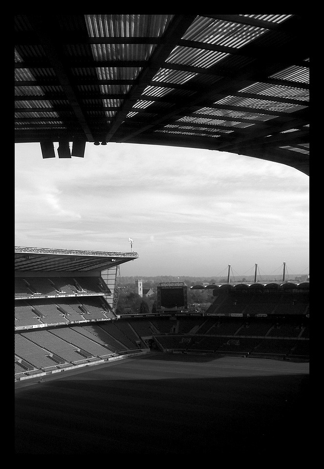 Twickenham Stadium pictured from the North Stand, facing the south east. Pictured before the South Stand was demolished in 2005. Photographed by myself (Michael Asenjo) in the Autumn of 2003 with a Toshiba PDR-M25 Digital Camera.